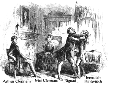 Little Dorrit, Mrs Clennam, Arthur, with Flintwinch and Rigaud fighting.